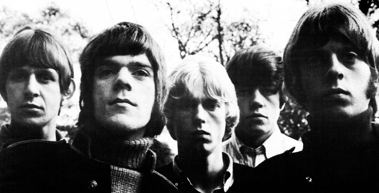 Trade ad for The Move's single "I Can Hear The Grass Grow".To better adapt it to his respective Wikipedia article, the ad was cropped and cleaned in a graphics editing program. The original can be viewed at the source below.